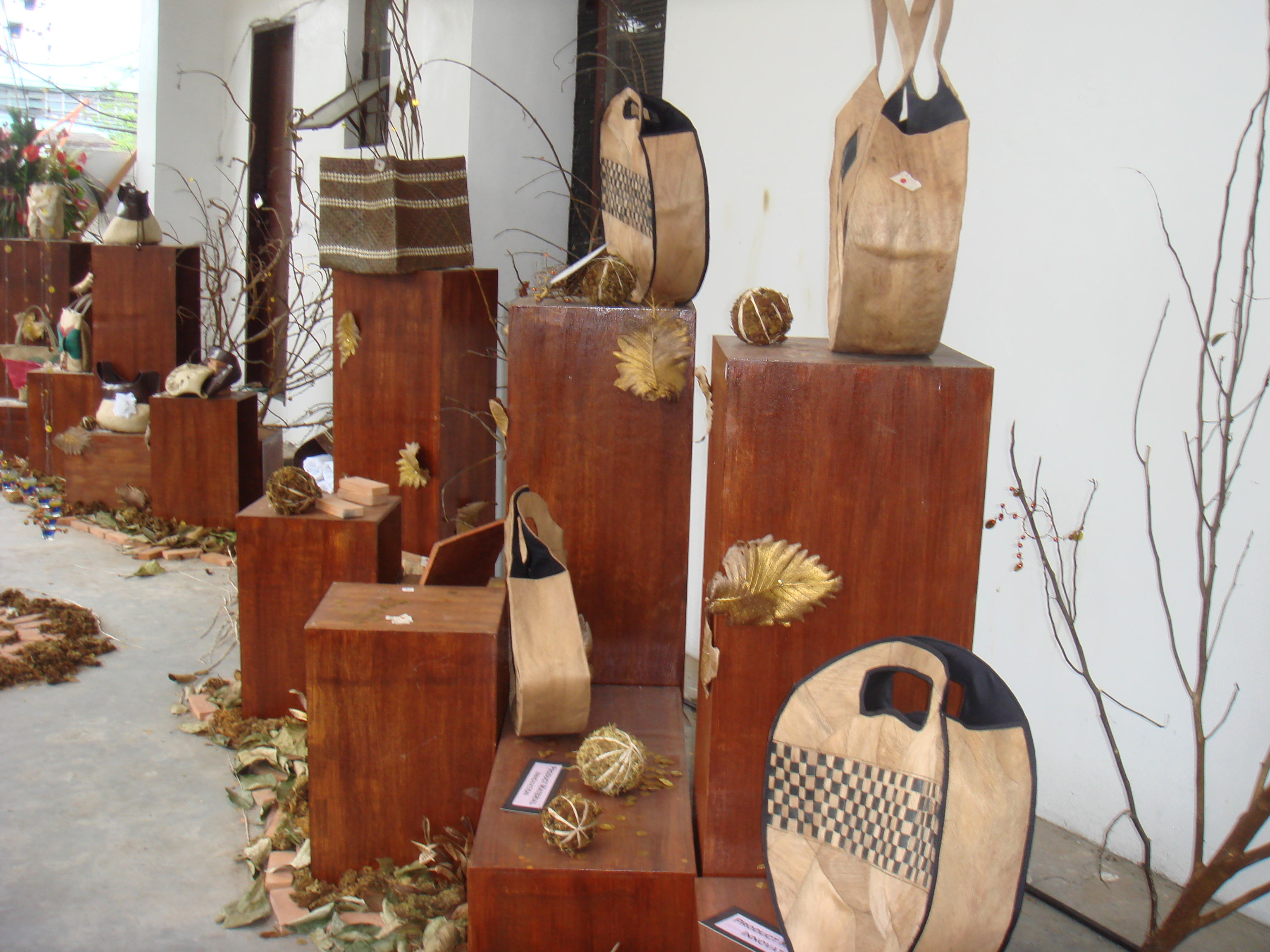 locally made bags